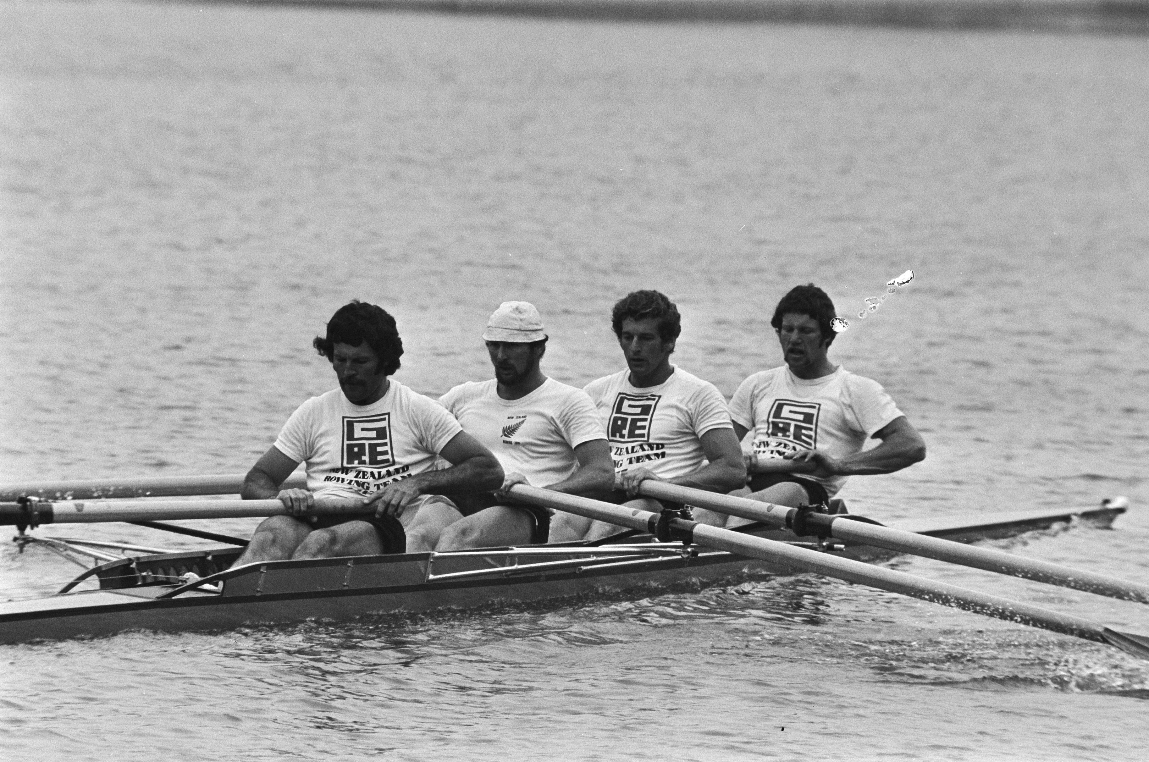 Training World Cup rowing Bosbaan; coxless four New Zealand: Dave Rodger, Des Lock, Ivan Sutherland, and David Lindstrom